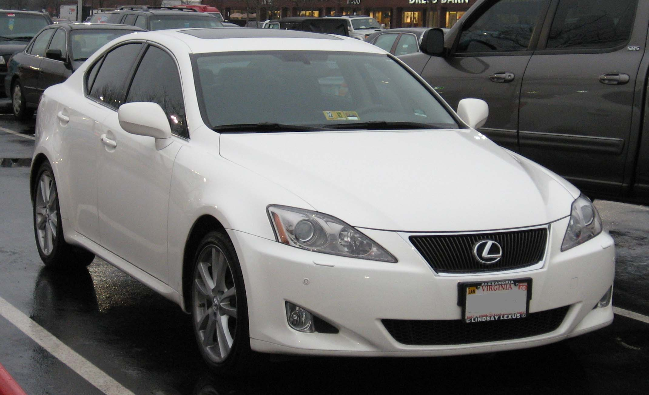 2006-2007 Lexus IS photographed in USA.